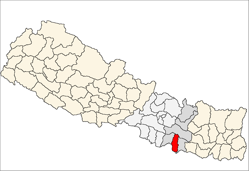 FrenchCarte de localisation dudistrict de Mahottari(wp-FR),au Népal (wp-FR).EnglishLocation map ofMahottari District(wp-EN),in Nepal (wp-EN).